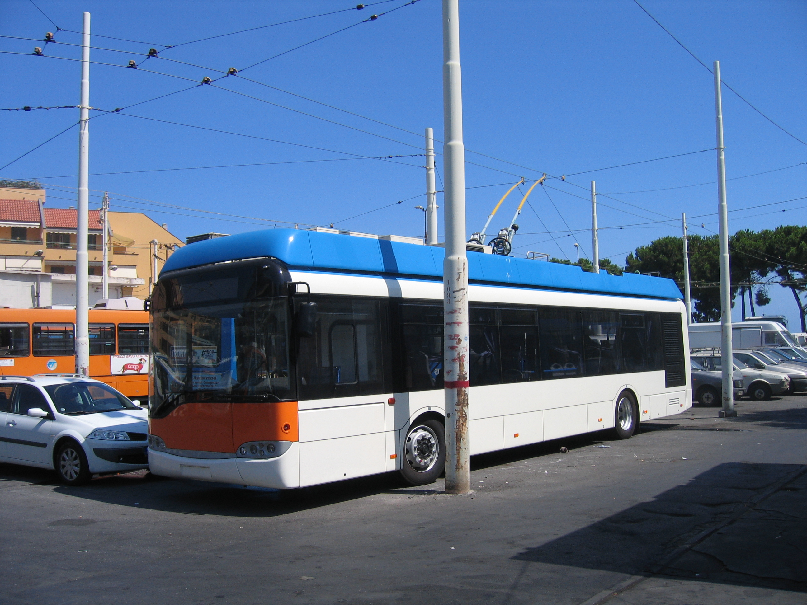 New trolleybus RT.1800 in Sanremo depot